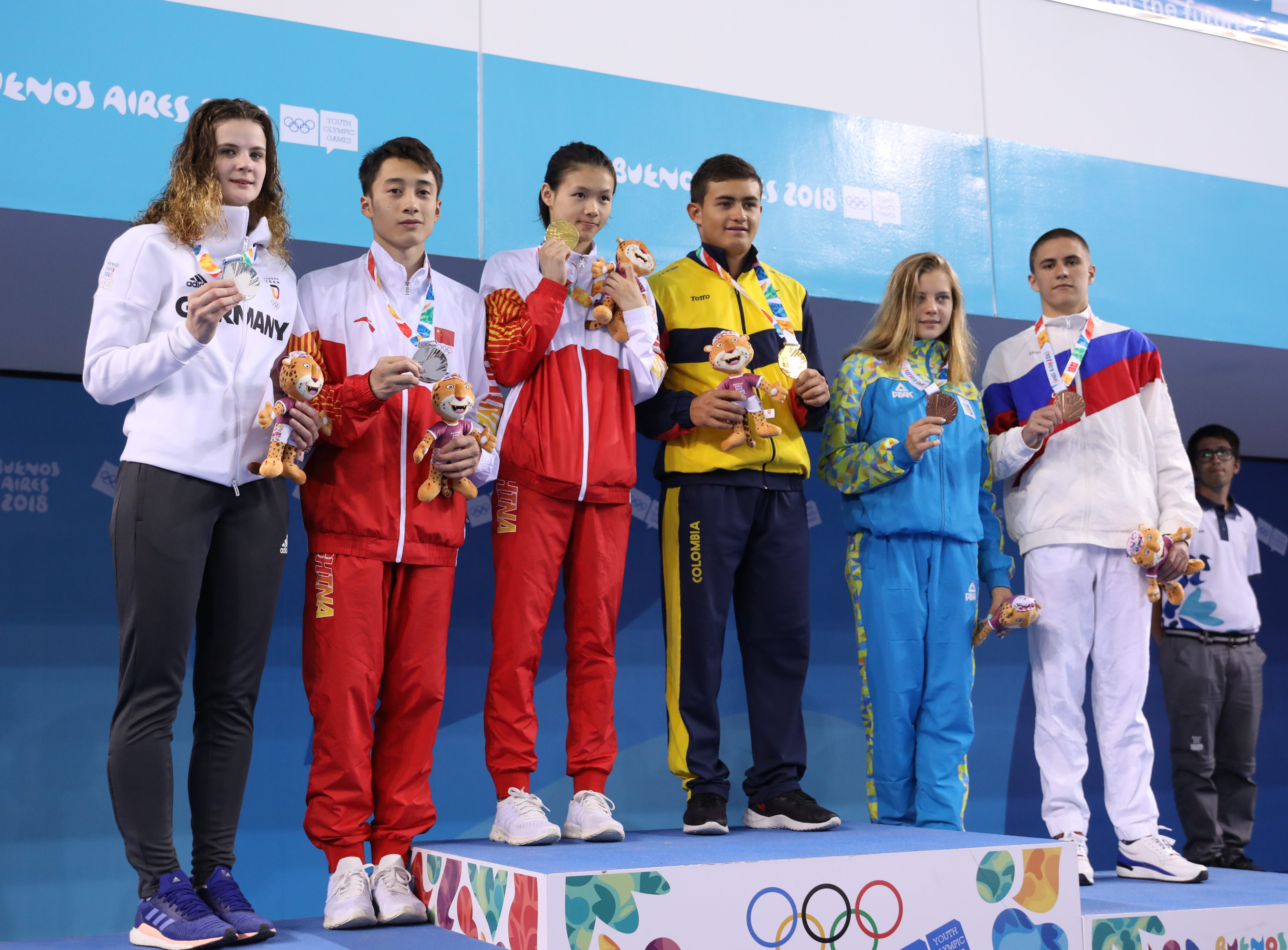 Victory ceremony of diving mixed at the 2018 Summer Youth Olympics in Buenos Aires on 17 October 2018.